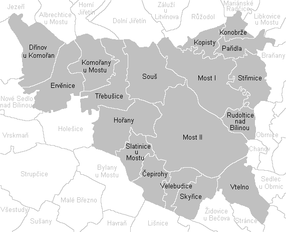 Cadastral map of Most